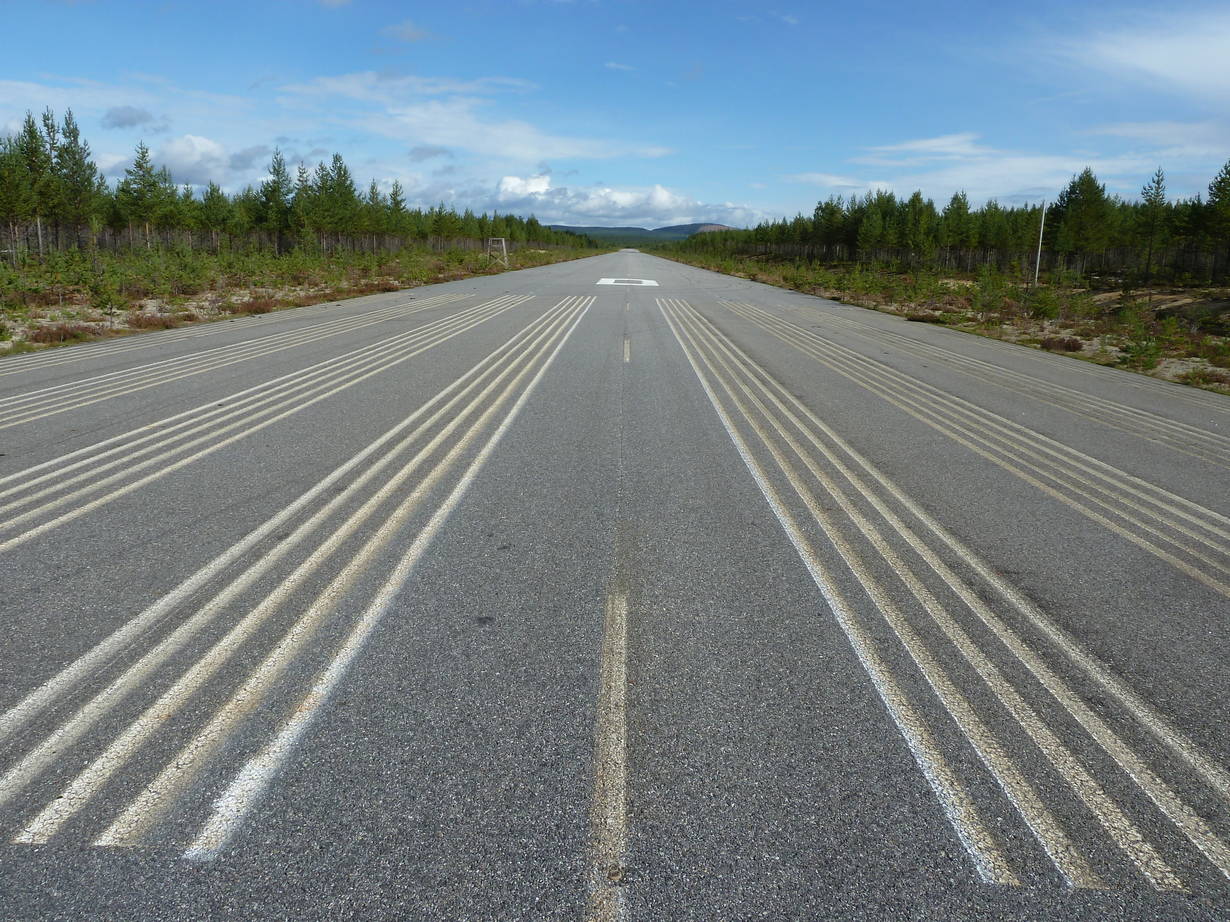 Runway at Kubbe flygbas, Örnsköldsvik, Sweden.